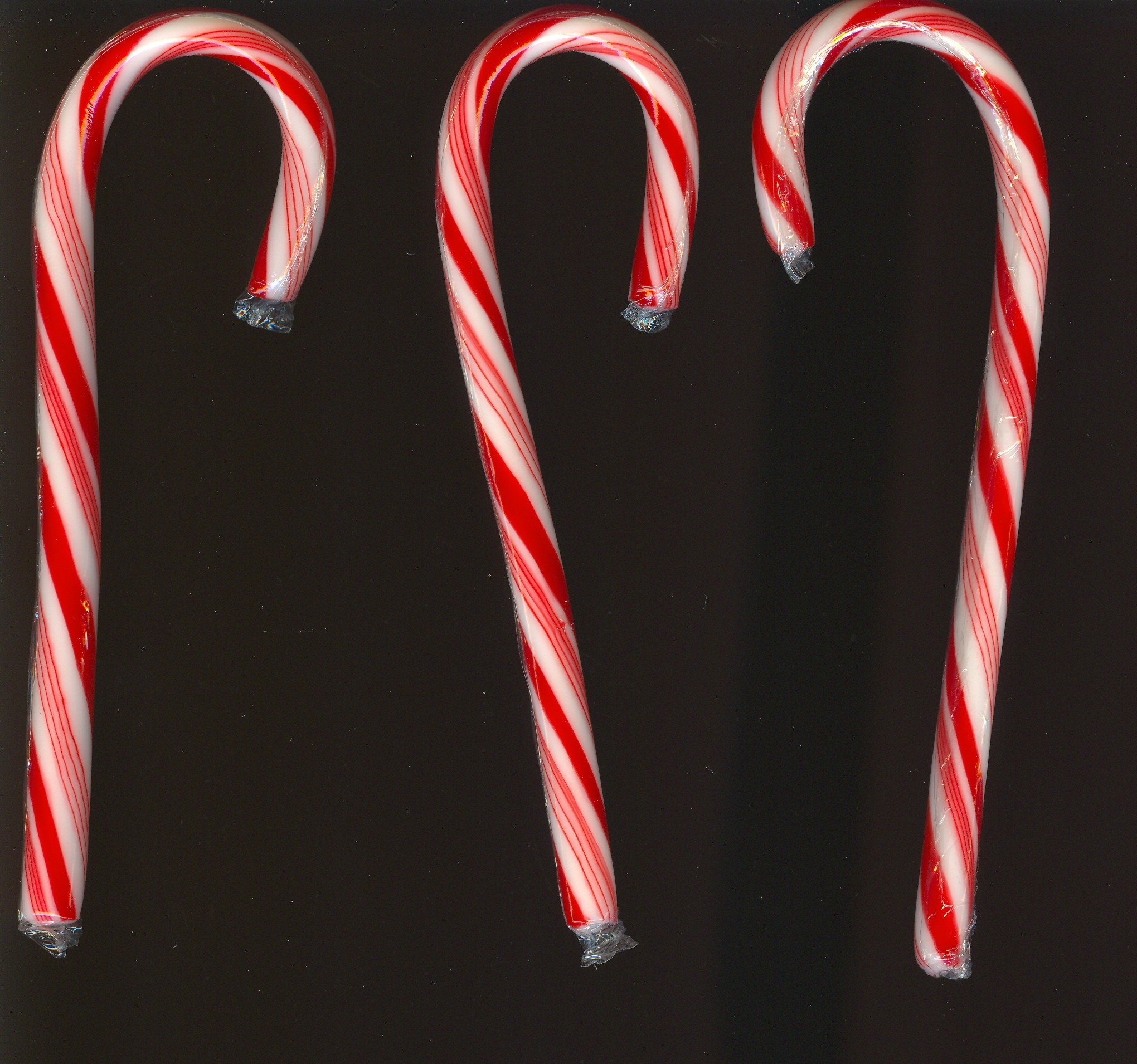 Peppermint candy cane on my scanner